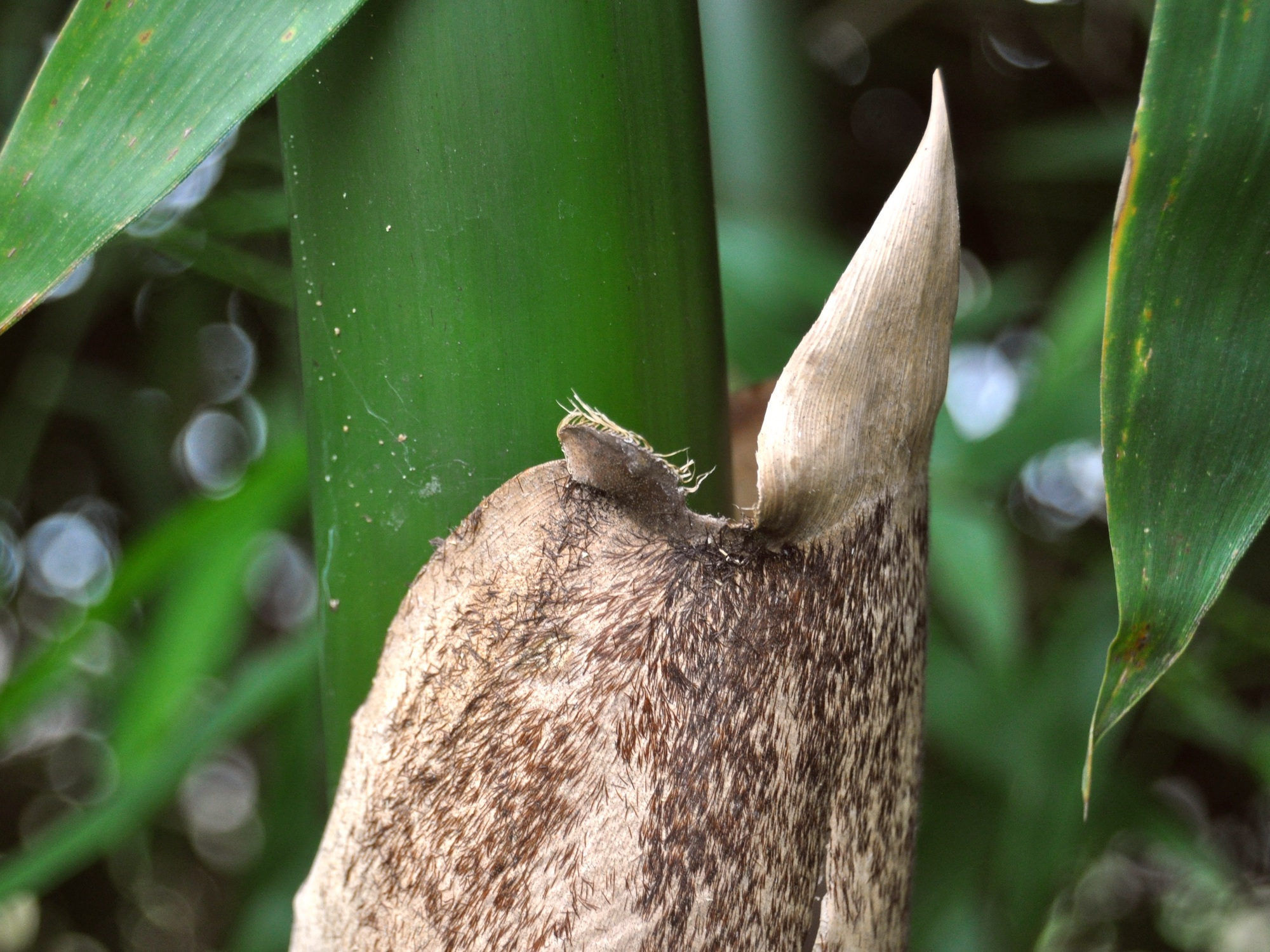 Common bamboo, Bambusa vulgaris; middle culm, with close up to culm sheath. From Bogor, West Java, Indonesia.